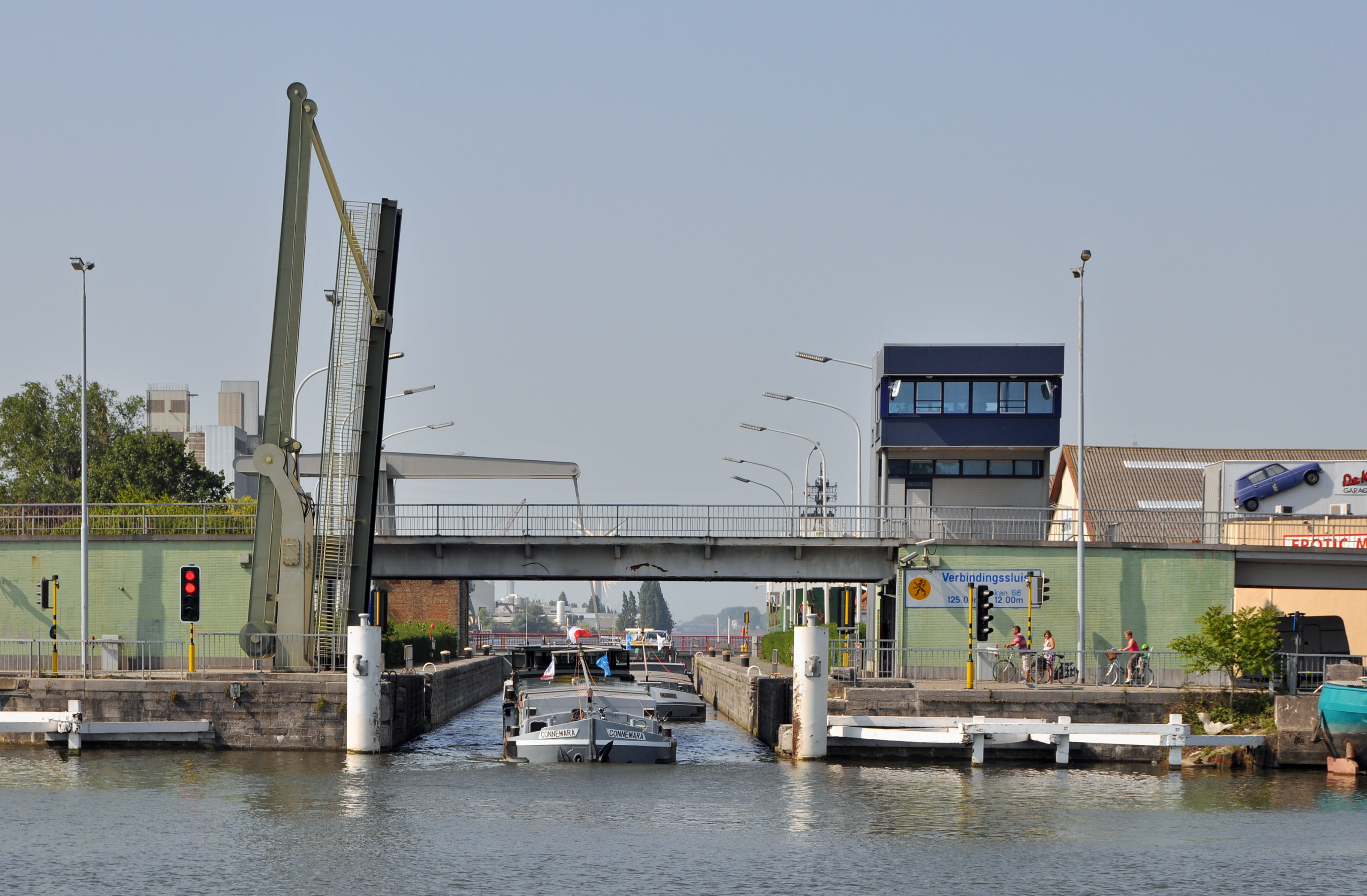 Bruges (Belgium): Boudewijn bridge. Left: the Small Boudewijn bridge (drawn)